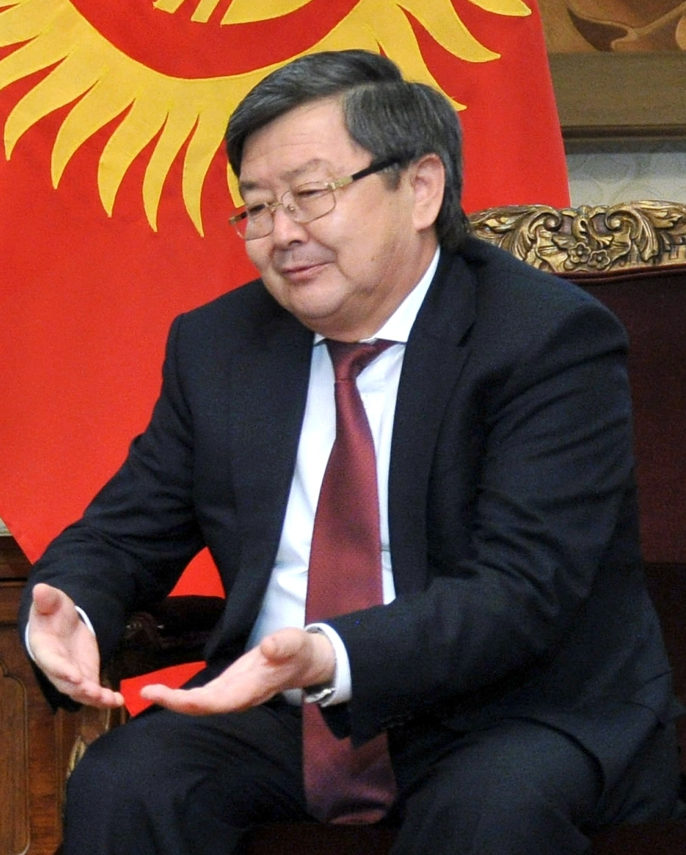 Prime Minister of Russia Dmitry Medvedev meets Prime Minister of Kirgizia Zhantoro Satybaldiyev.